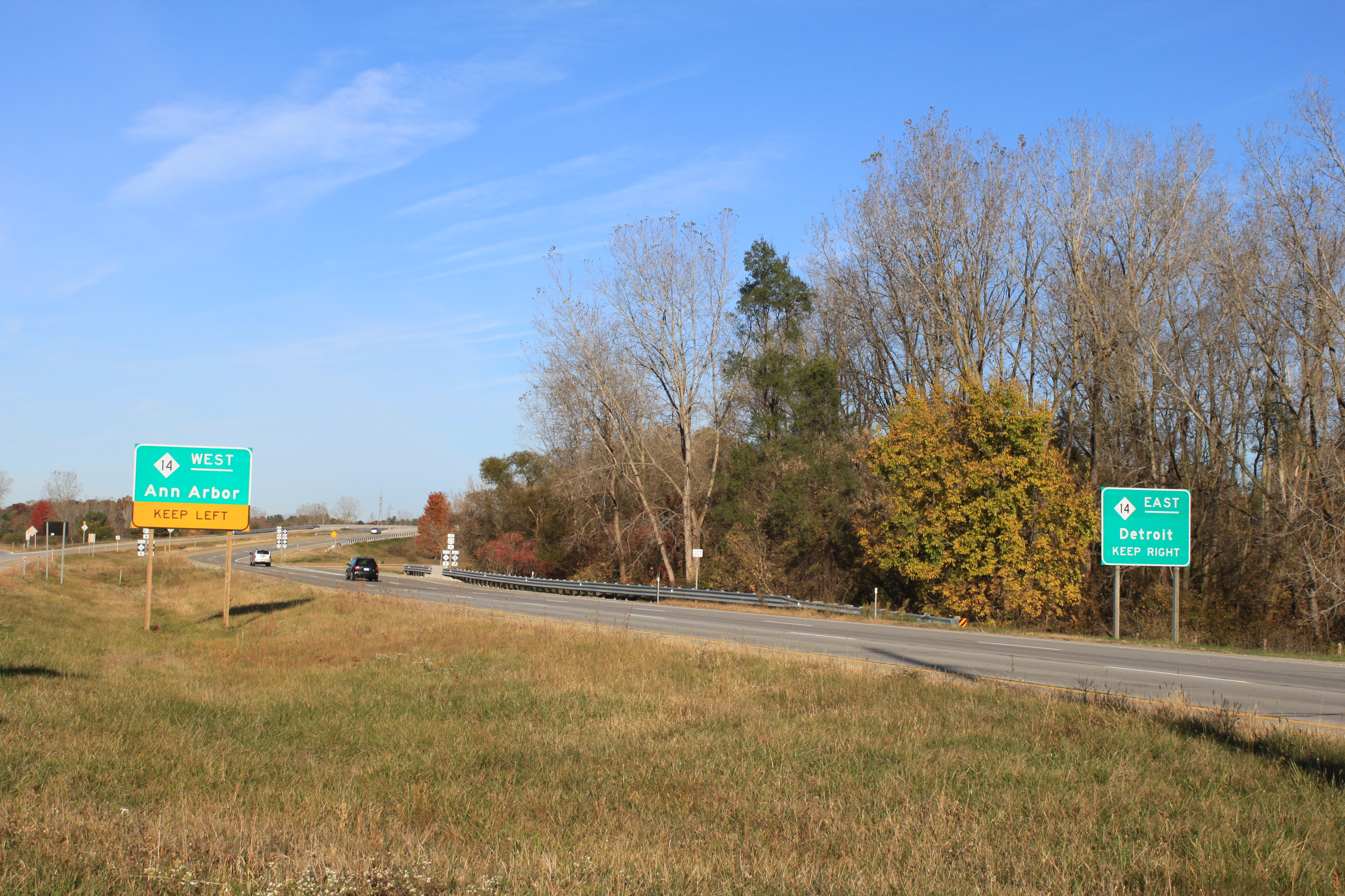 Intersection of M-153 (Ford Road) and M-14, Superior Township, Michigan, facing west, viewed from intersection of M-153 and Plymouth Road.